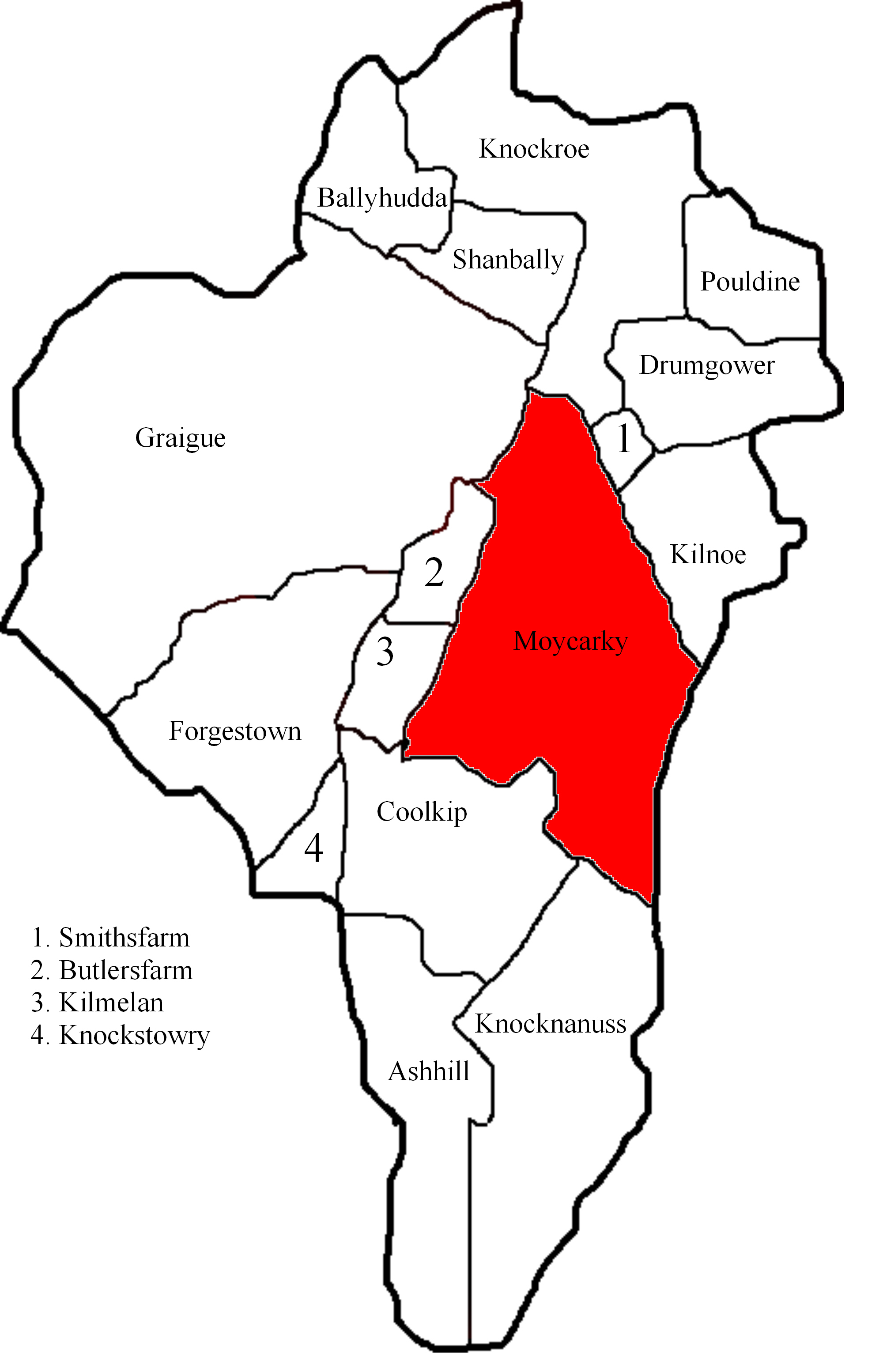 Map showing location of Moycarky townland within Moycarky civil parish in County Tipperary. This map was made by colouring in the townland on this more basic map.